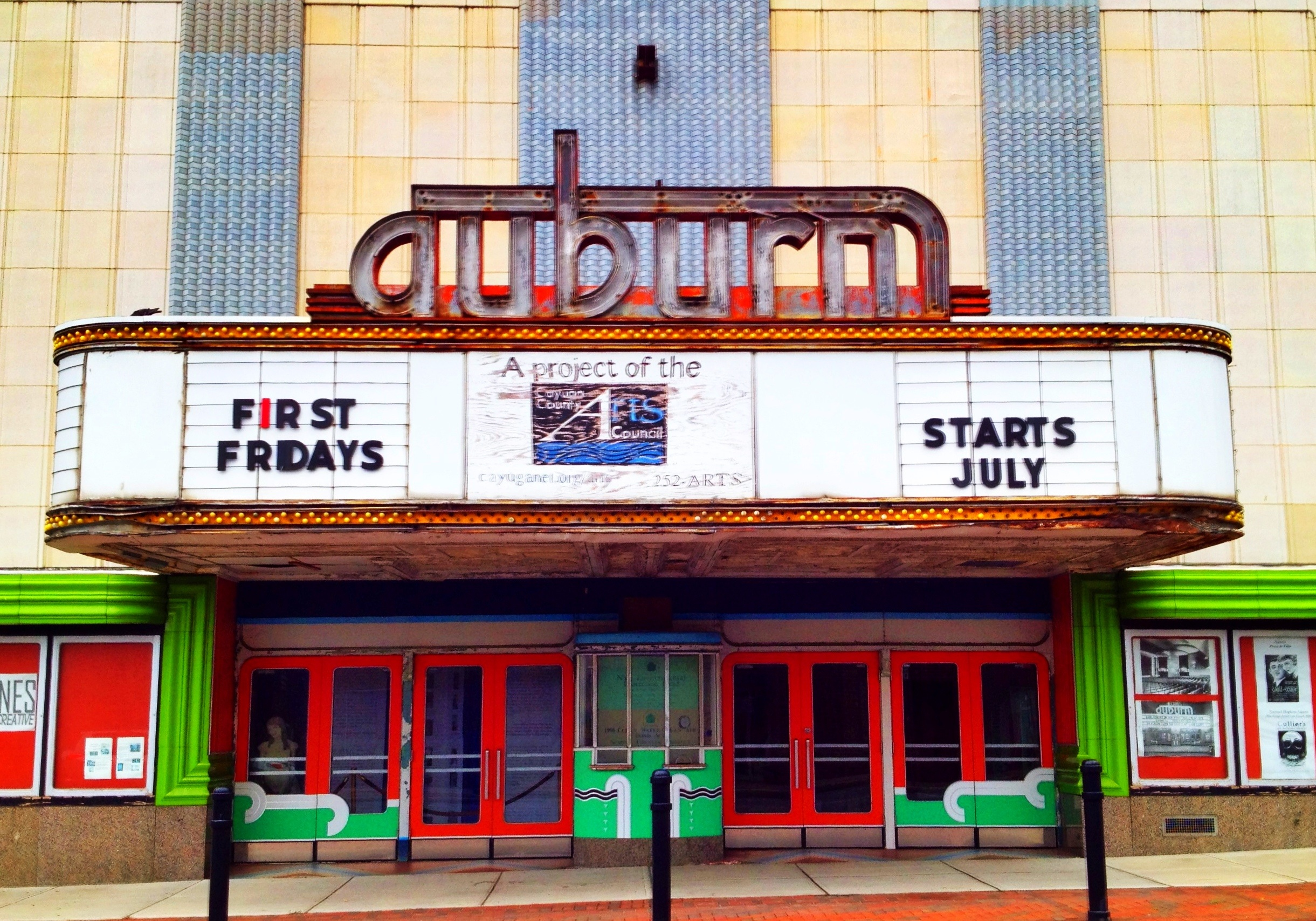 Auburn Theater, Auburn New York